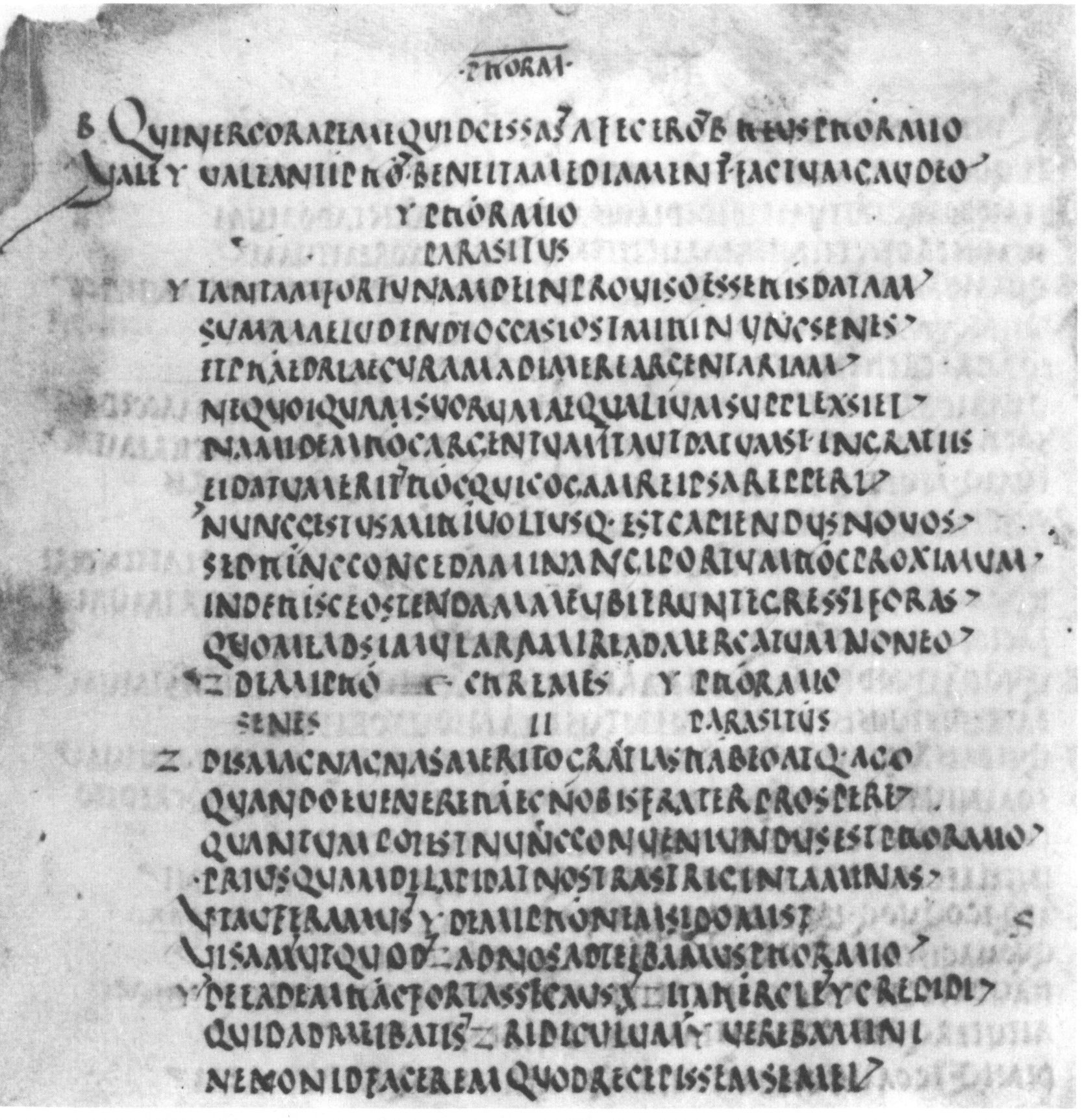 Terence, Phormio. Biblioteca Apostolica Vaticana, Vat. lat. 3226, fol. 72r (so-called “Terentius Bembinus”).